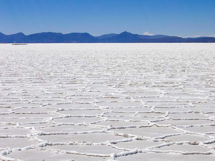 This is the Salar of Uyuni, in Bolivia.